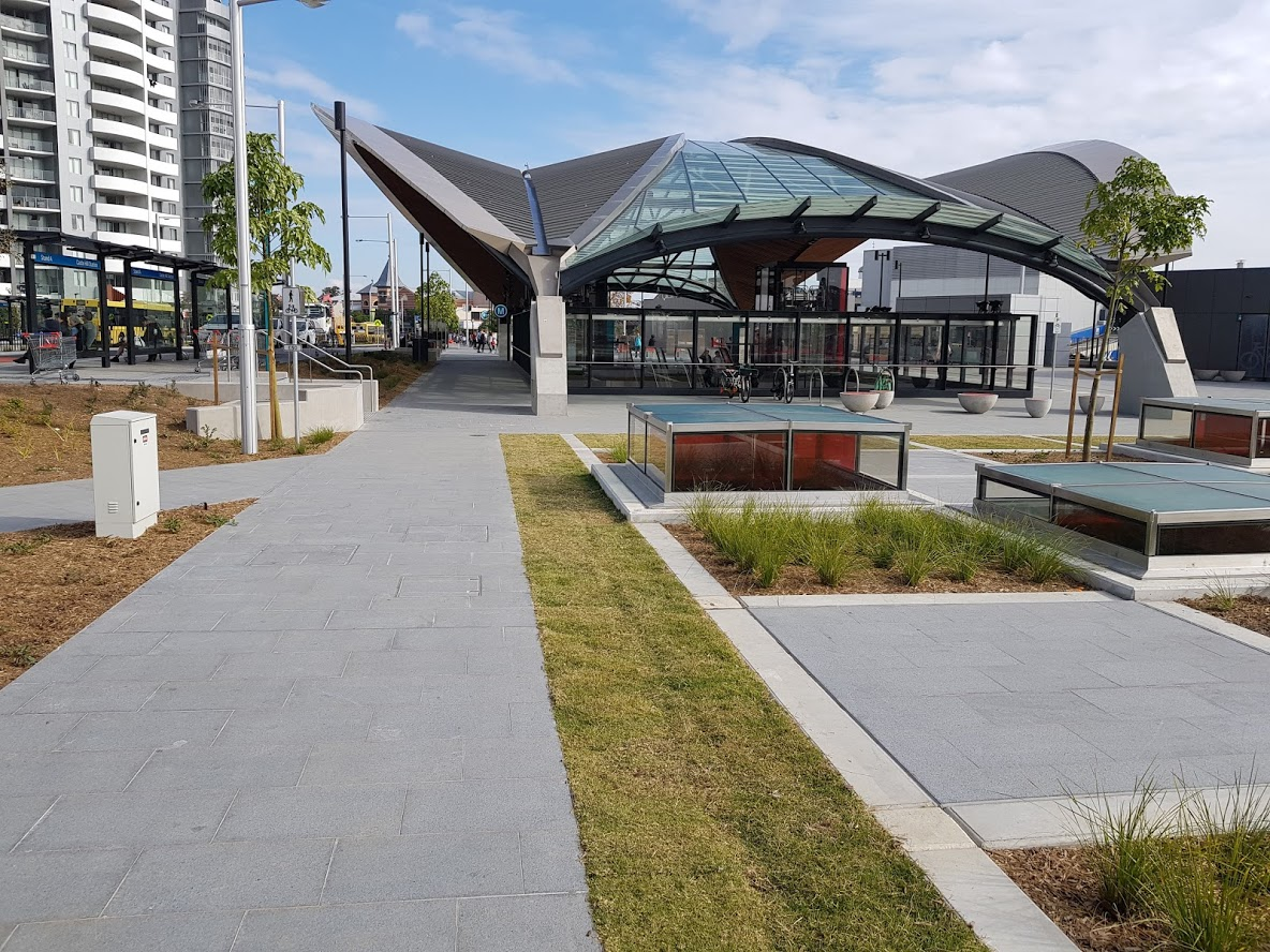 Castle hill railway station 2